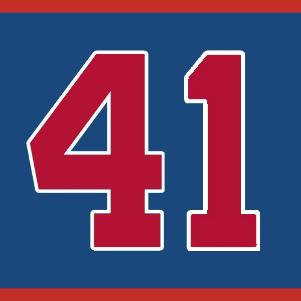 Illustration of Eddie Matthew's Retired Braves Number